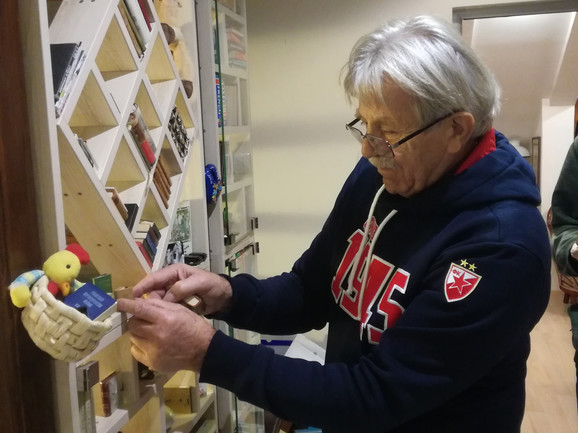 Ljubivoje Ršumović next to the Collection of miniature books "Nataša Ršumović" in the Museum of Serbian Literature in Belgrade, Serbia. Српски (ћирилица): Љубивоје Ршумовић поред збирке минијатурних књига "Наташа Ршумовић", у Музеју српске књижевности у Београду.